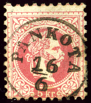 Hungarian Pankota cancellation at Pâncota (Western Transylvania) in 1867-1871 period